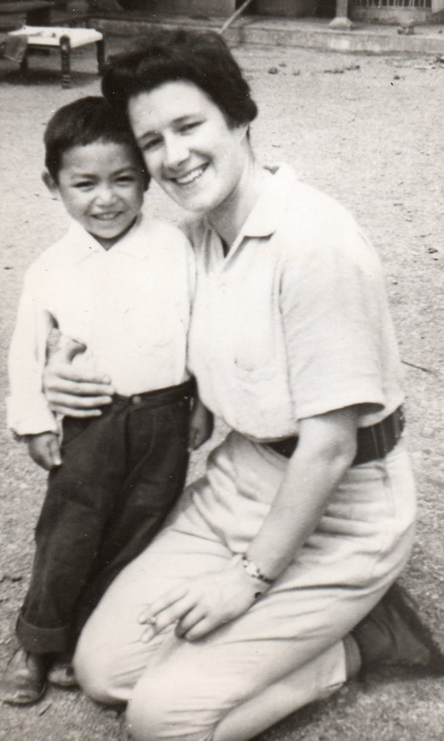 Cyclist and writer Dervla Murphy in Tibet in 1965, as described in her book Tibetan Foothold